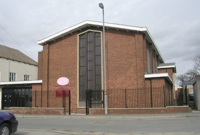 Featherstone Methodist Church - Wilson Street